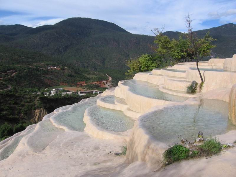 Baishuitai (白水台), north of Lijiang, Yunnan, China.